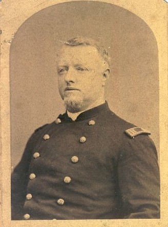 Alanson Merwin Randol (1837-1887), United States Army